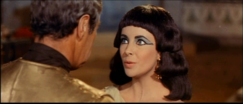 Screenshot of Rex Harrison and Elizabeth Taylor from the trailer for the film Cleopatra.